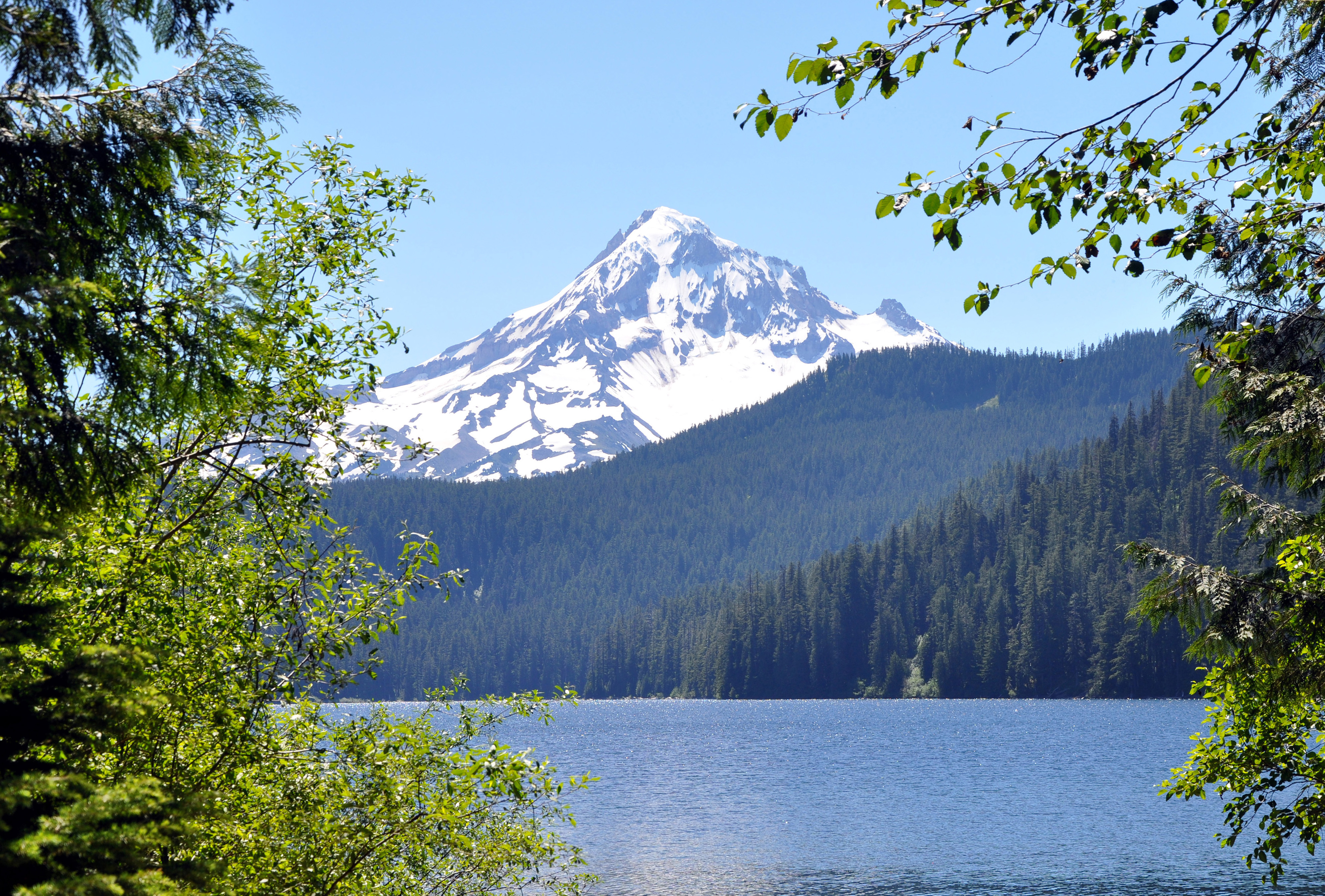 Bull Run Lake in northwestern Oregon, United States, Mount Hood in the background. Bull Run River begins at Bull Run Lake.